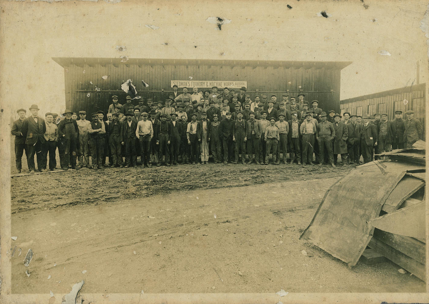 Stedman's Foundry & Machine Works staff photo Circa 1840, Aurora, Indiana